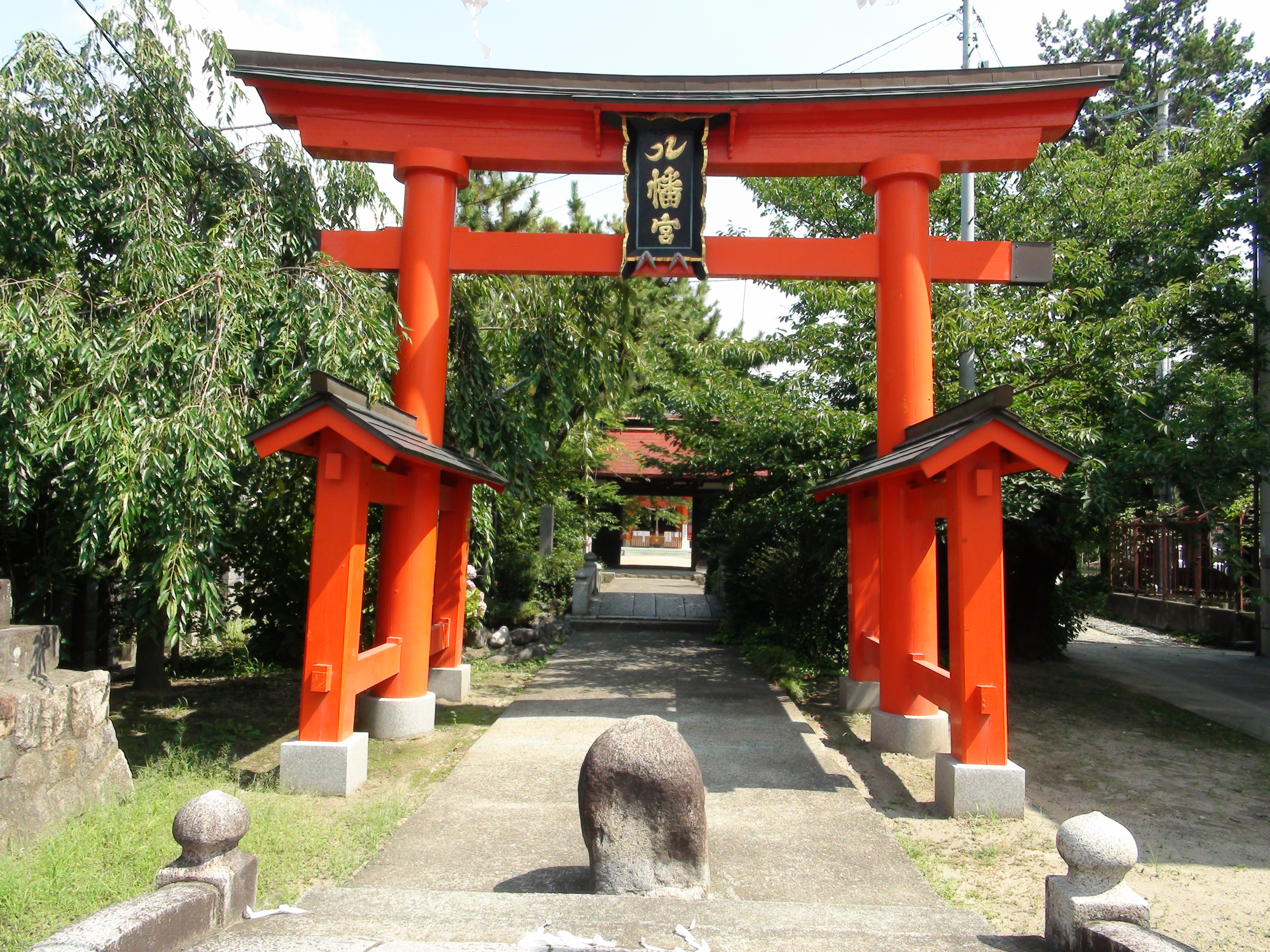 Isawa Hachiman Jinja Torii